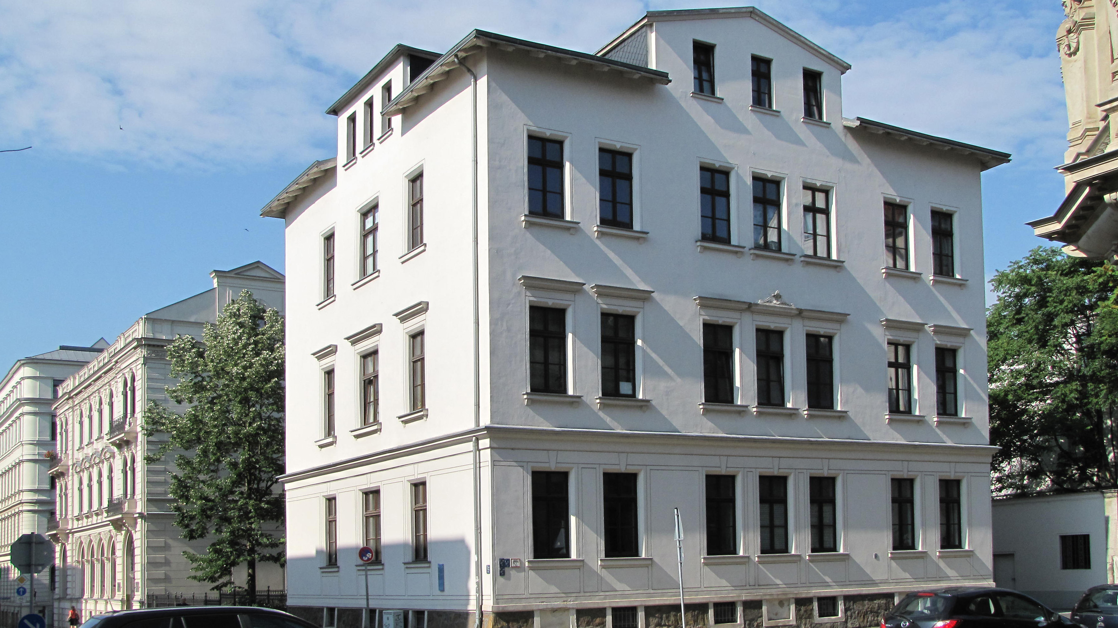 Corner of Talstrasse and Goldschmidtstrasse in Leipzig (Front to Goldschmidtstraße). View of former home of the Musikbibliothek Peters, in the background the former house of music publishing company CF Peters, today Edvard Grieg Memorial Grieg-Begegnungsstätte Leipzig e. V., Talstraße 10